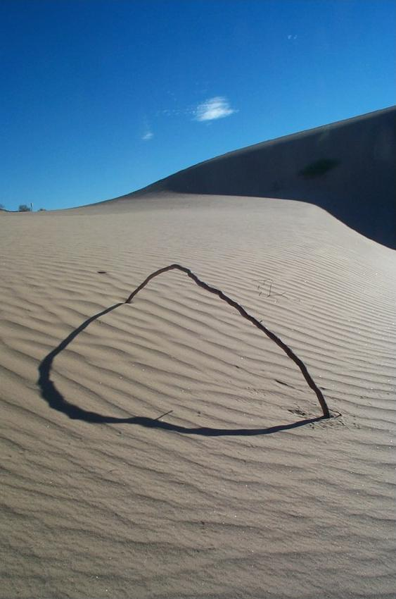 Algodones Dunes, Colorado Desert (California) This Image was taken by Jeff T. Alu at Algodones Dunes. AnimAlu 00:55, 21 Mar 2005 (UTC)